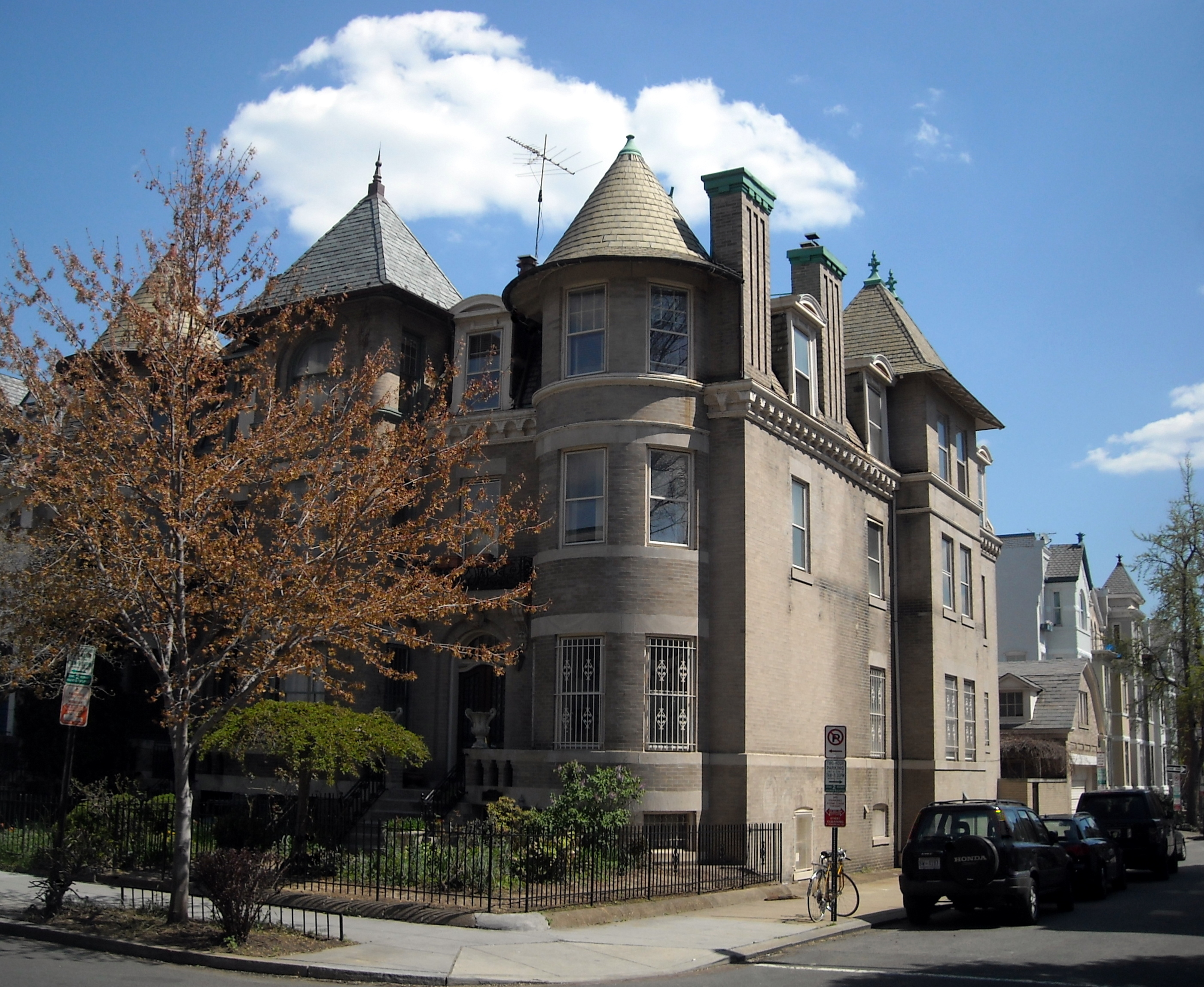 A row house located at 1721 19th Street, N.W., (northeast corner of 19th Street and Riggs Place, N.W.) in the Dupont Circle neighborhood of Washington, D.C. Built in 1890, the Queen Anne-style home is designated as a contributing property to the Dupont Circle Historic District, listed on the National Register of Historic Places in 1978. Previous occupants of 1721 19th Street, N.W., (corner house) include the following: Samuel Baldwin Marks Young – a U.S. Army general; veteran of the American Civil War, the Spanish-American War, and Philippine American War; the first president of Army War College; and the first Chief of Staff of the U.S. Army. Lucien Young – an admiral of the U.S. Navy; Commandant of the U.S. naval station in Havana, Cuba during the Spanish-American War. Louis Brownlow – mayor of Washington, D.C.; journalist; author; political scientist; member of the Cosmos Club. Usha Selvanayagam – employee of the Indian embassy.